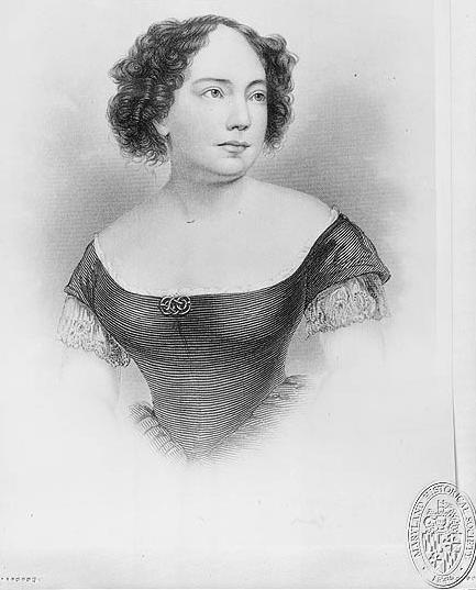 Image of Anna Ella Carroll, 1815-1894, uploaded from a Frontispiece from the Maryland Historical Society. For use in the Anna Ella Carroll article.